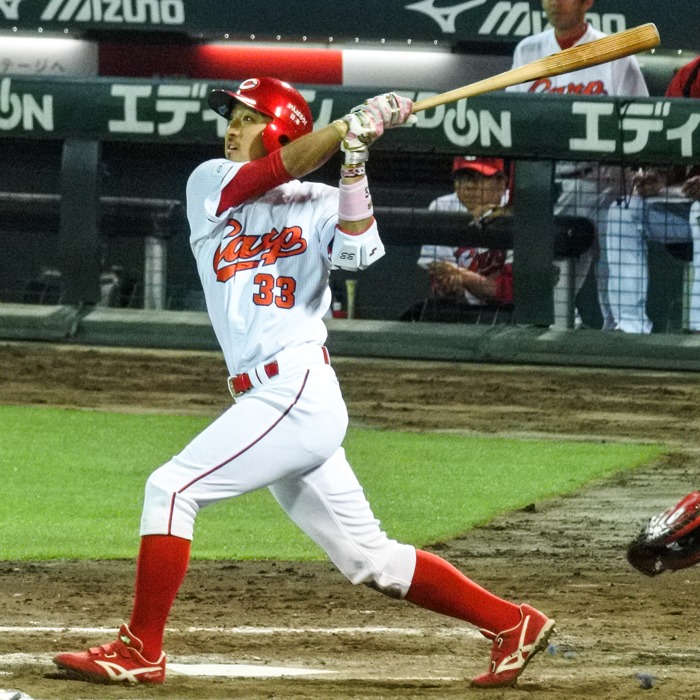 Ryosuke Kikuchi, infielder of the Hiroshima Toyo Carp, at MAZDA Zoom-Zoom Stadium Hiroshima.